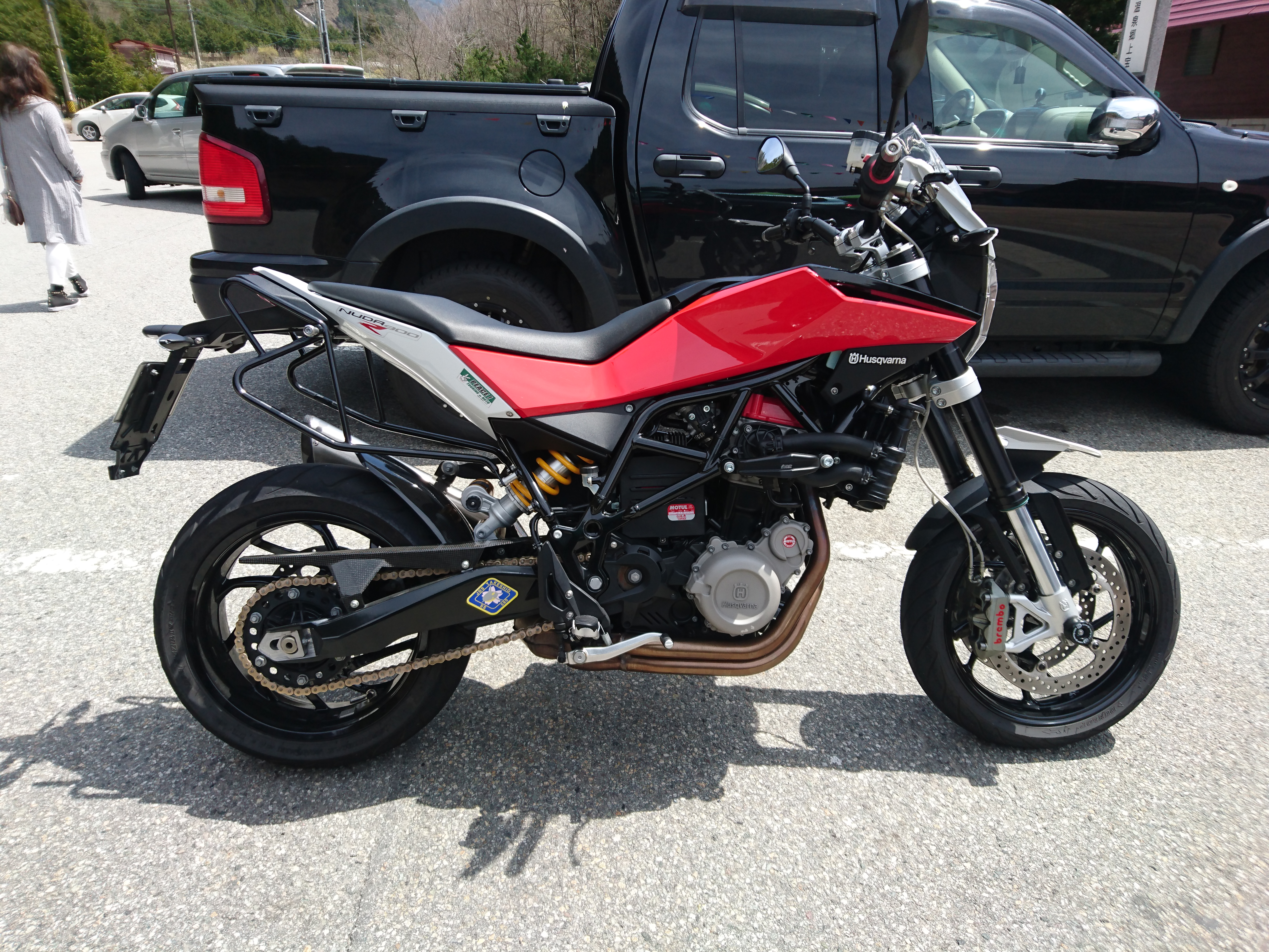 Husqvarna motorcycle in Japan.